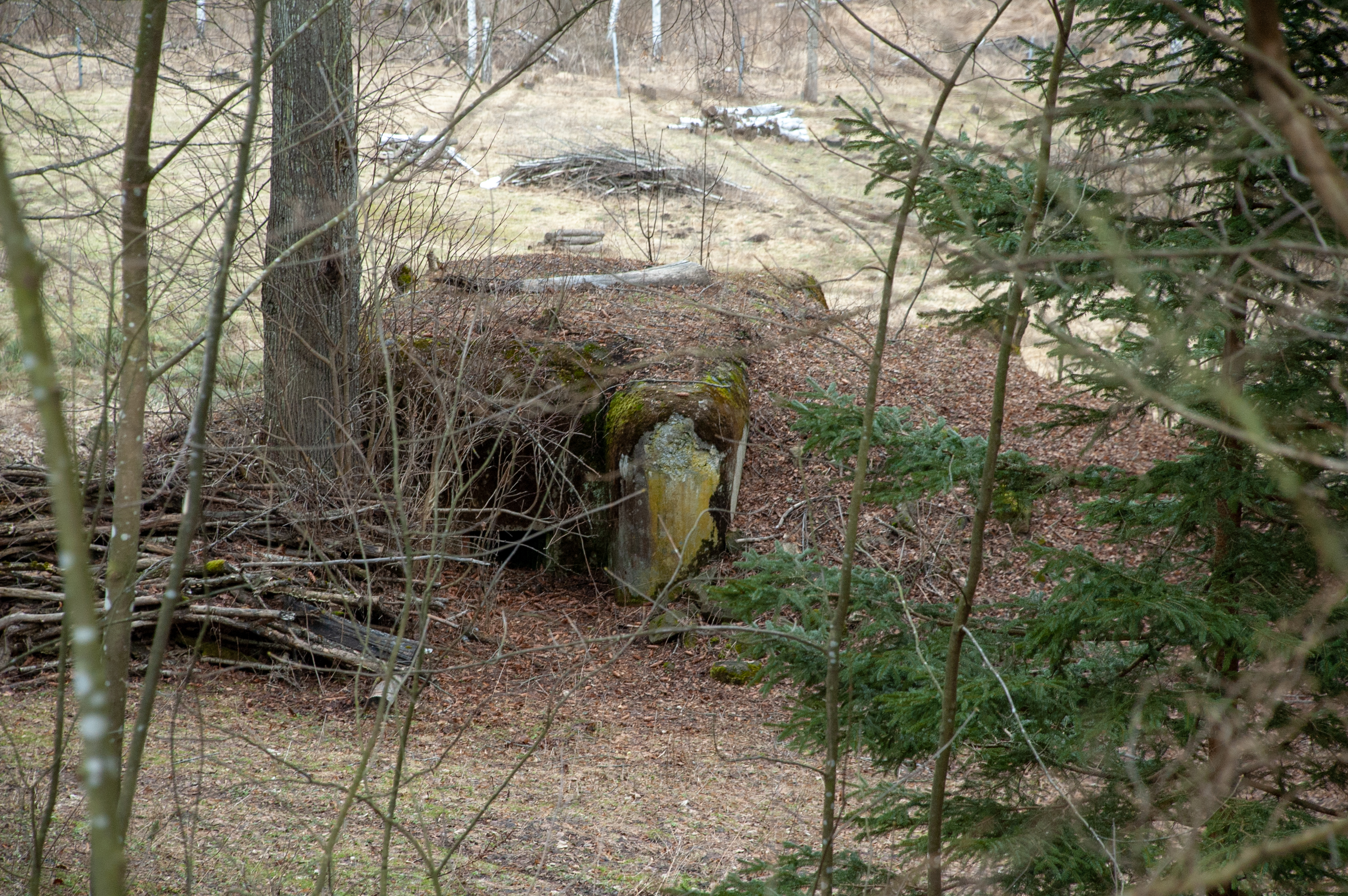 This image was created as a part of Editaton Prachatice (Czech).